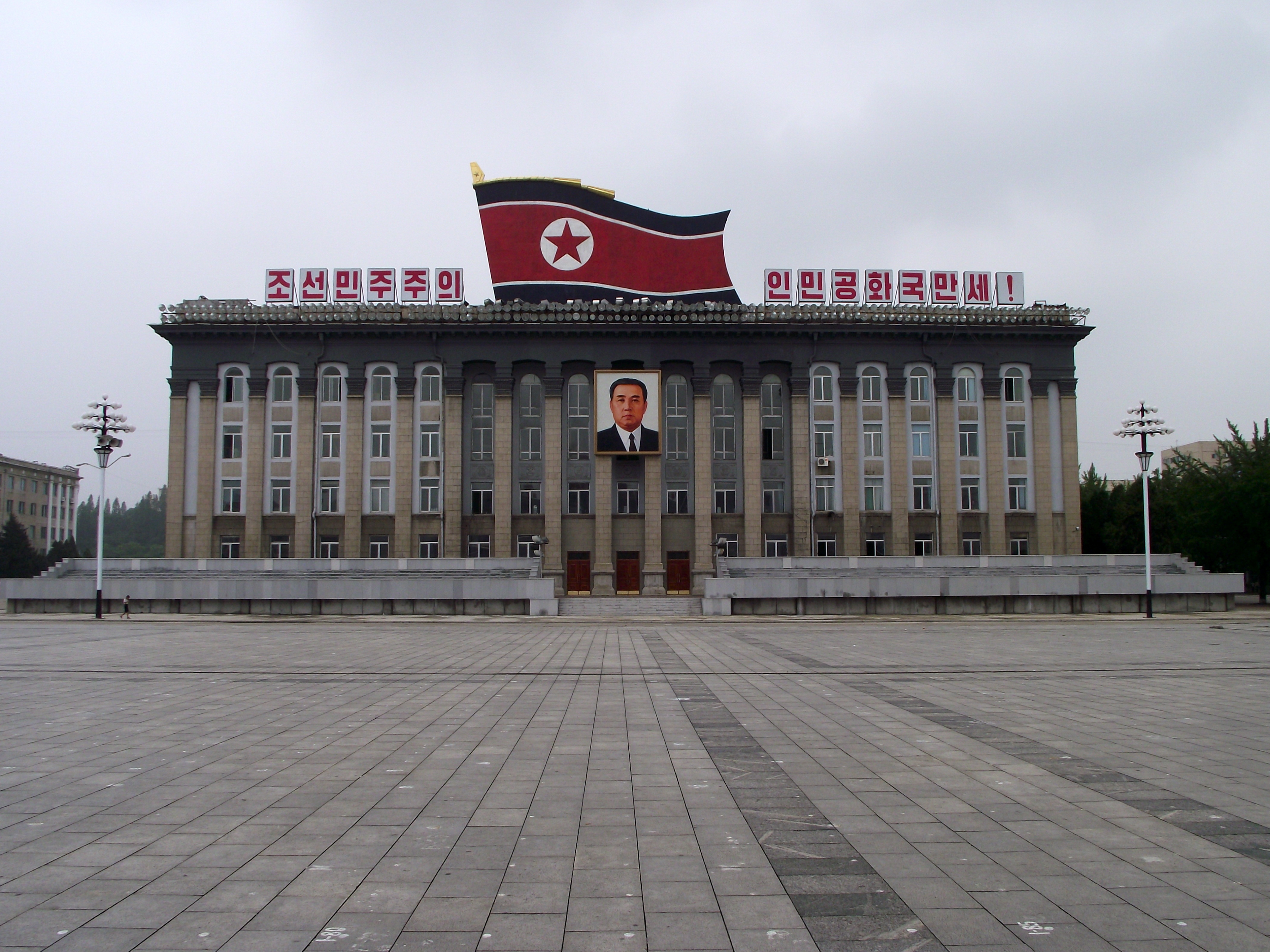 Headquarters of Workers' Party of Korea